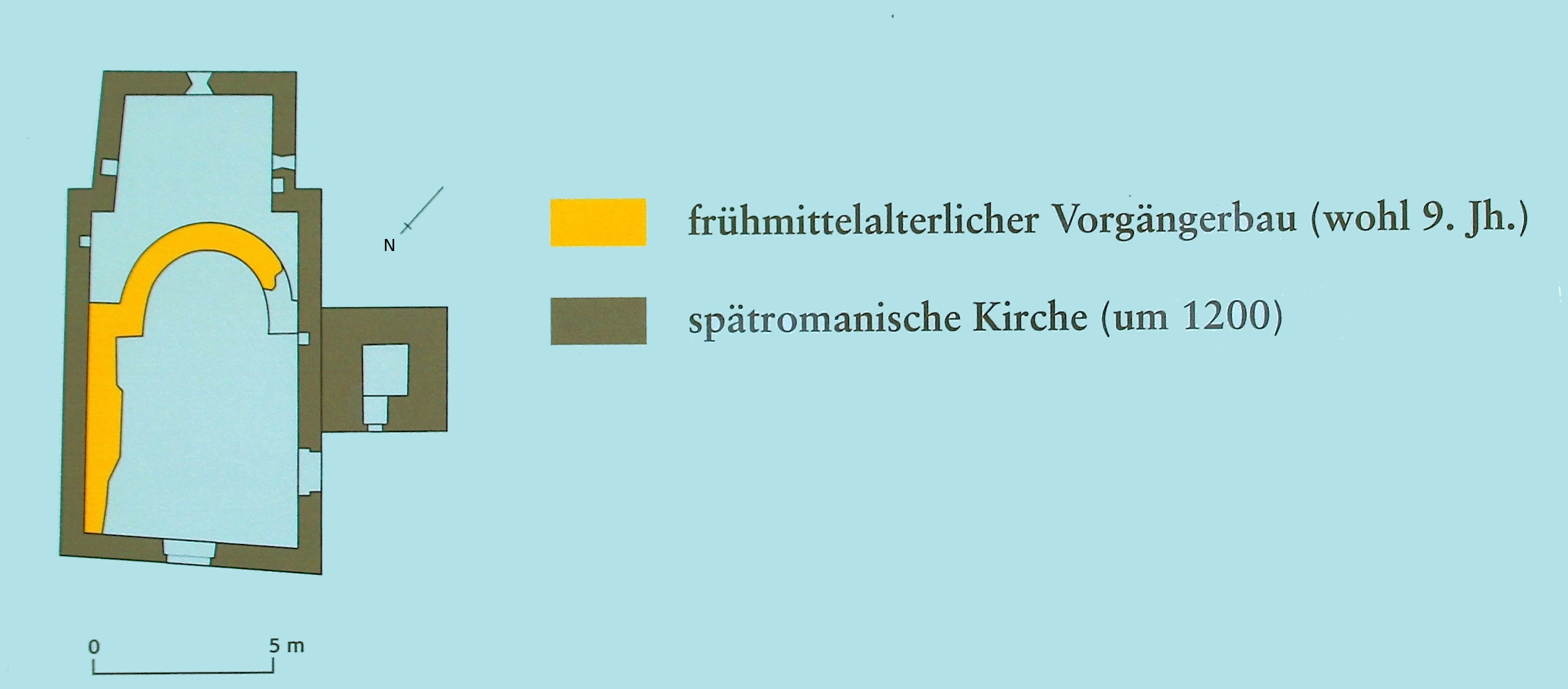 Antoniuskirche Mathon